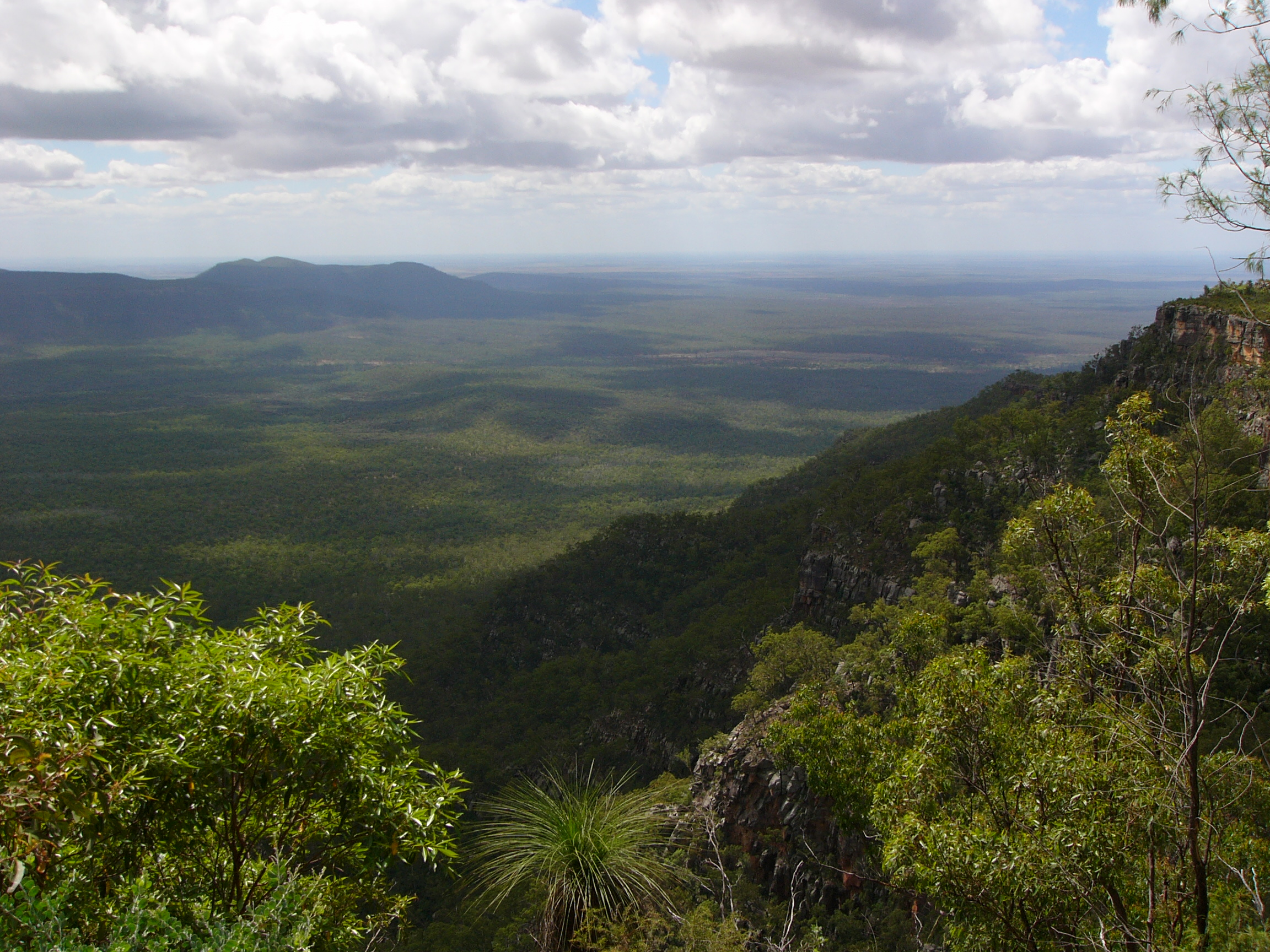 Taken Mar/06, by P. Moore